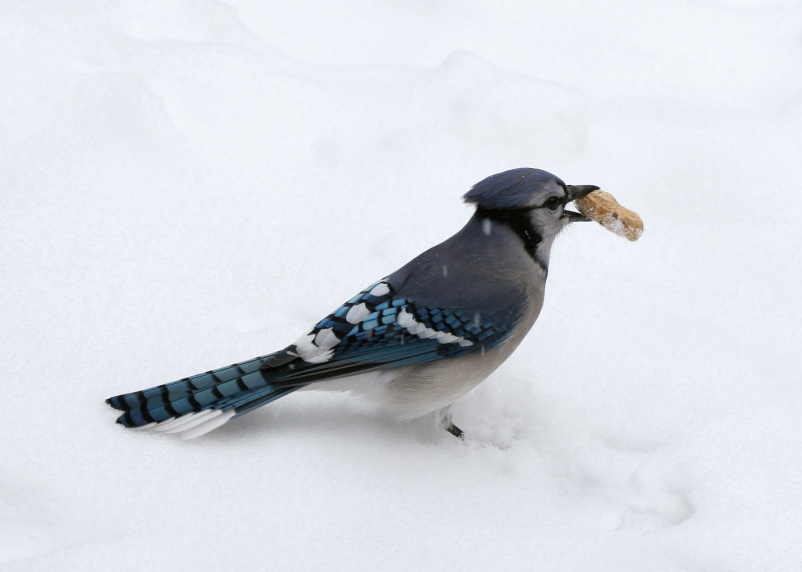 I am playing with my settings on my camera and I keep tossing a peanut out, the Blue Jays are loving it! Explore Dec. 6, 2008